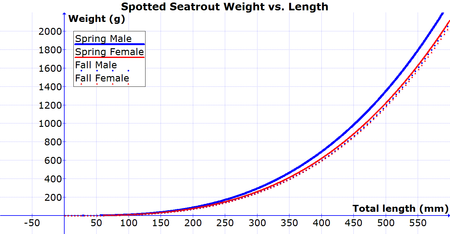 Weight length curves for spotted seatrout using equations developed by Jenkins (2004) for spotted seatrout from Louisiana estuaries. reference: Jenkins, J.A. Fish Bioindicators of Ecosystem Condition at the Calcasieu Estuary, Louisiana. USGS National Wetlands Research Center, Lafayette, LA. Open-File Report 2004-1323